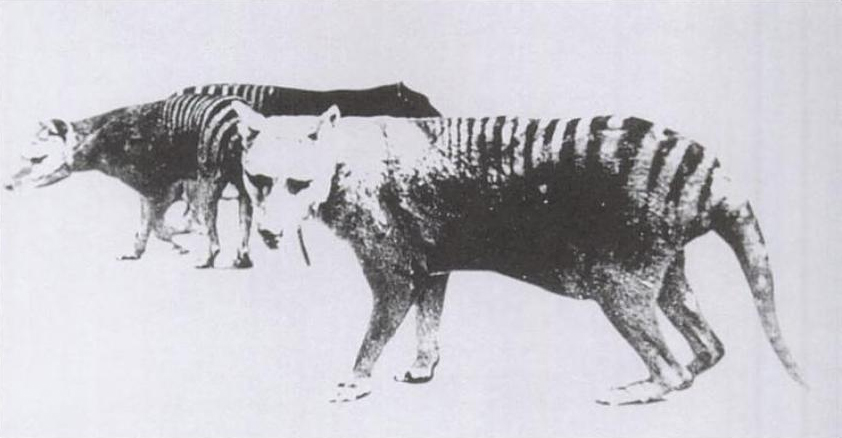 One of only two known photos of a Thylacine with a distended pouch, bearing young. Adelaide Zoo.